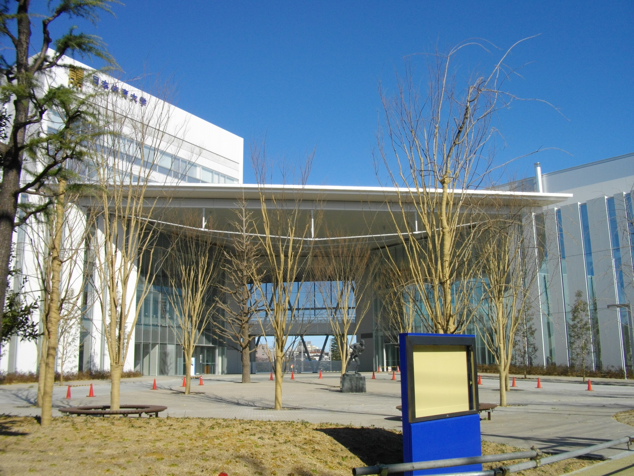 Nippon Sport Science University Fukasawa Campus